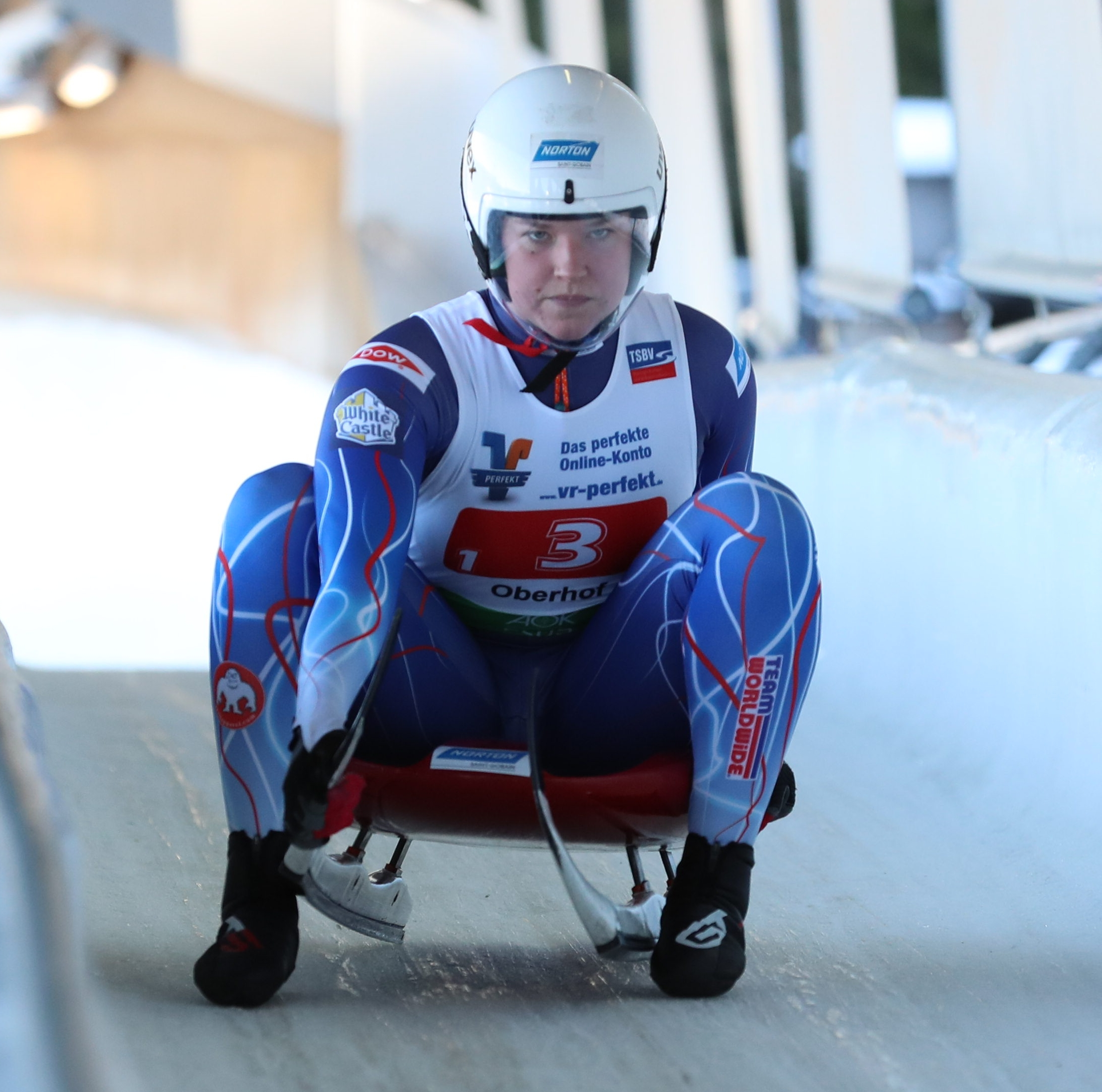 Team competitions race at the 2018/19 Juniors and Youth A Luge World Cup in Oberhof